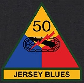 50th Armored Division with Jersey Blues Tab. The 50th Armored Division inherited the "Jersey Blues" nickname from the 44th Infantry Division after World War II. The 50th Armored used the nickname until the 1960s, when it became a multi-state division.